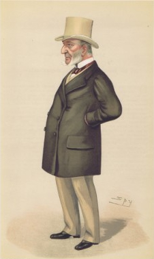 Caricature of Sir John Simon Kt MP. Caption read "The Serjeant".